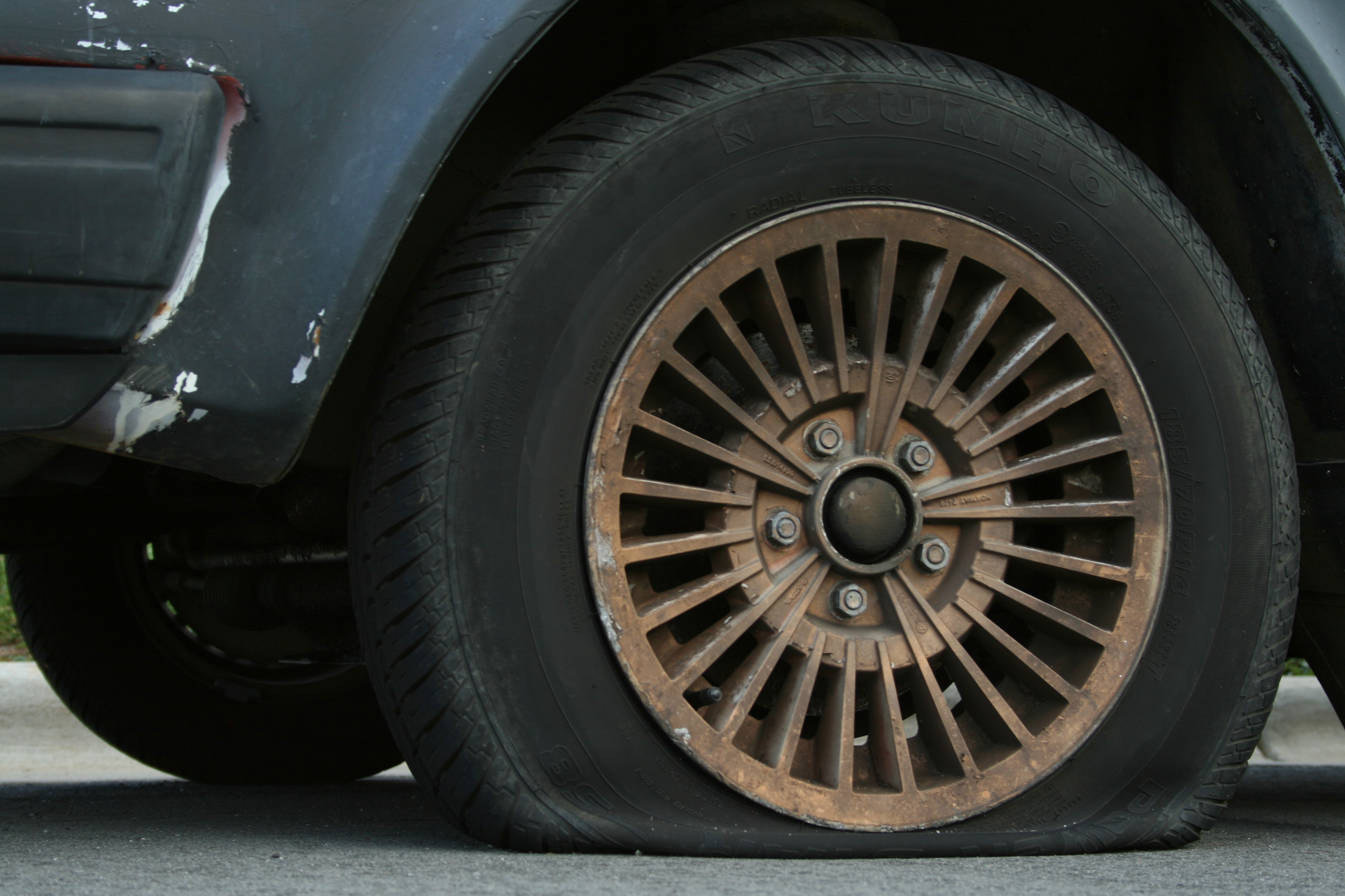 A flat automobile tire on a Volvo 240.